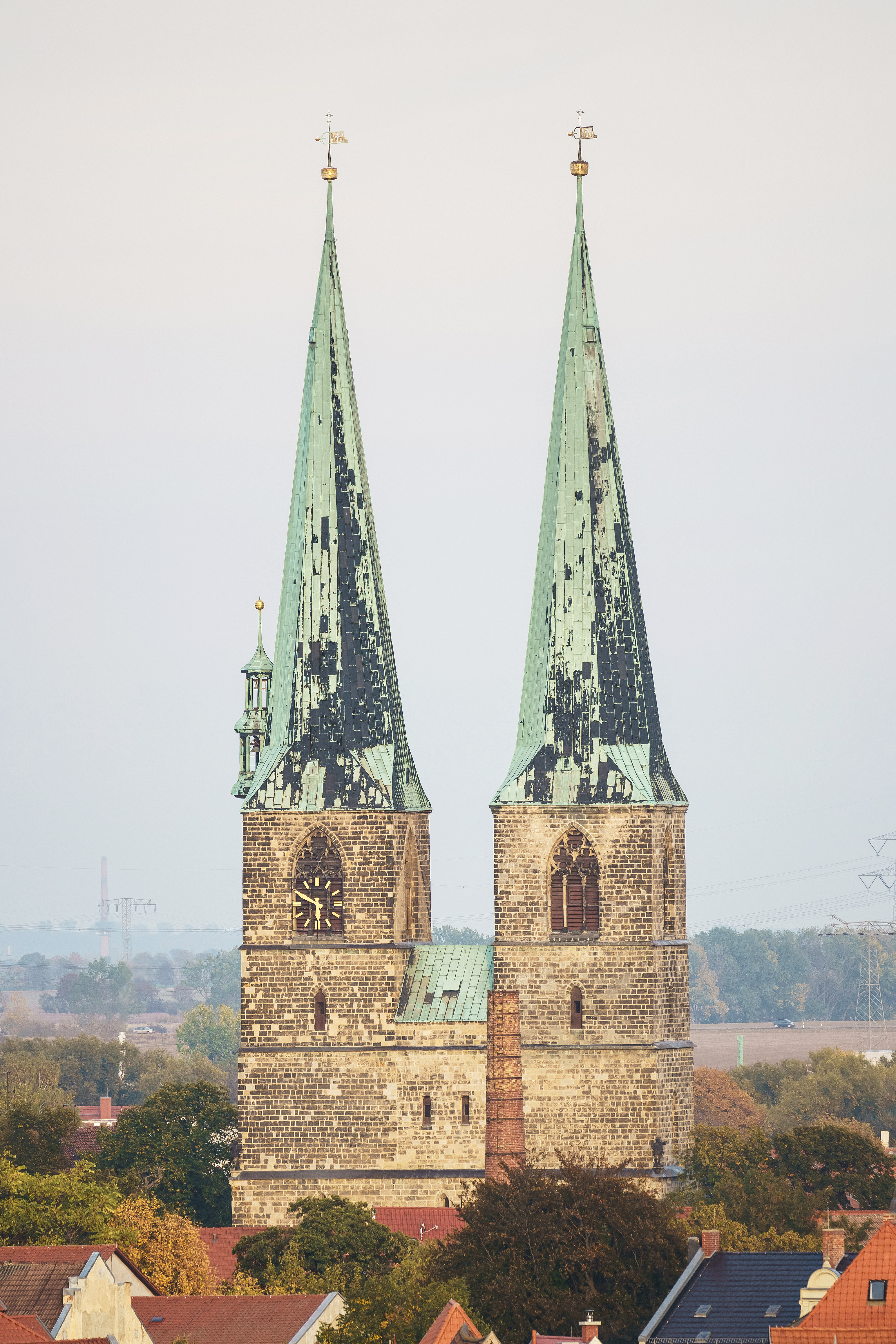 St. Nicholas Church in Quedlinburg, Germany